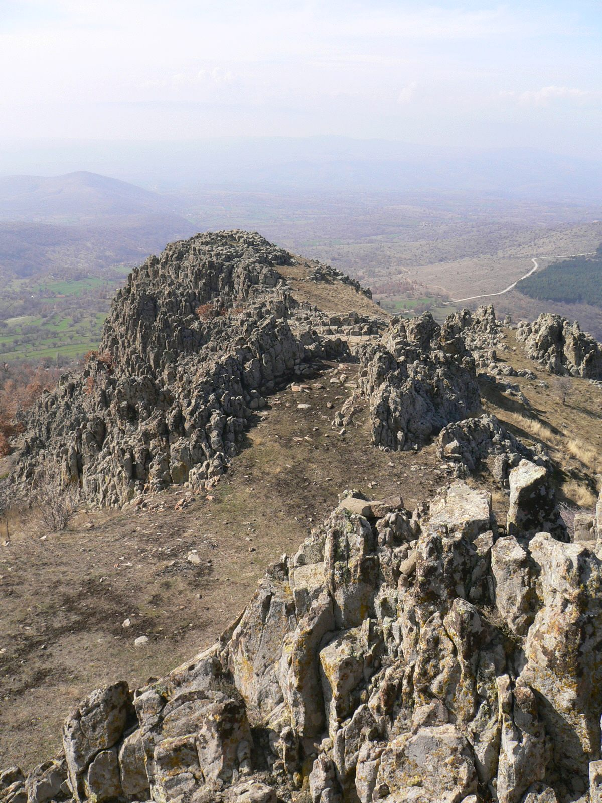 Overview of upper part of Kokino observatory.